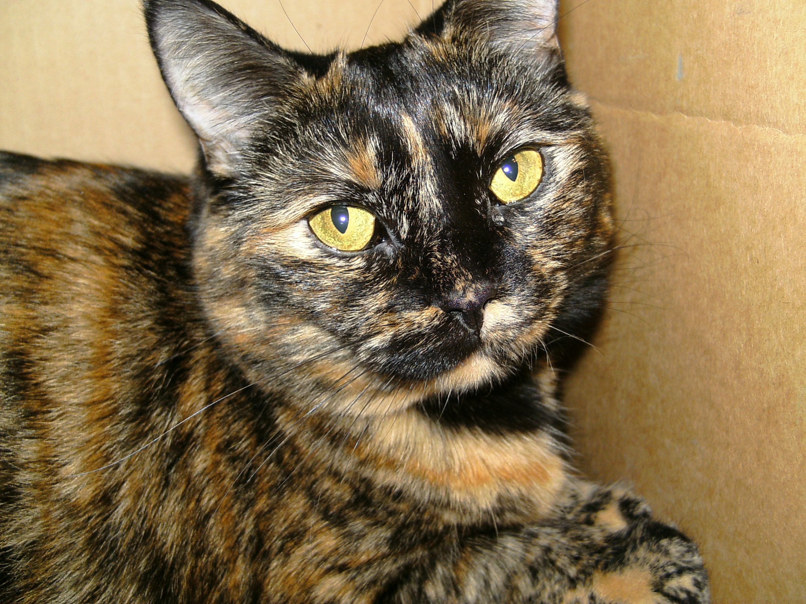 A picture I took of my cat, Cindy.